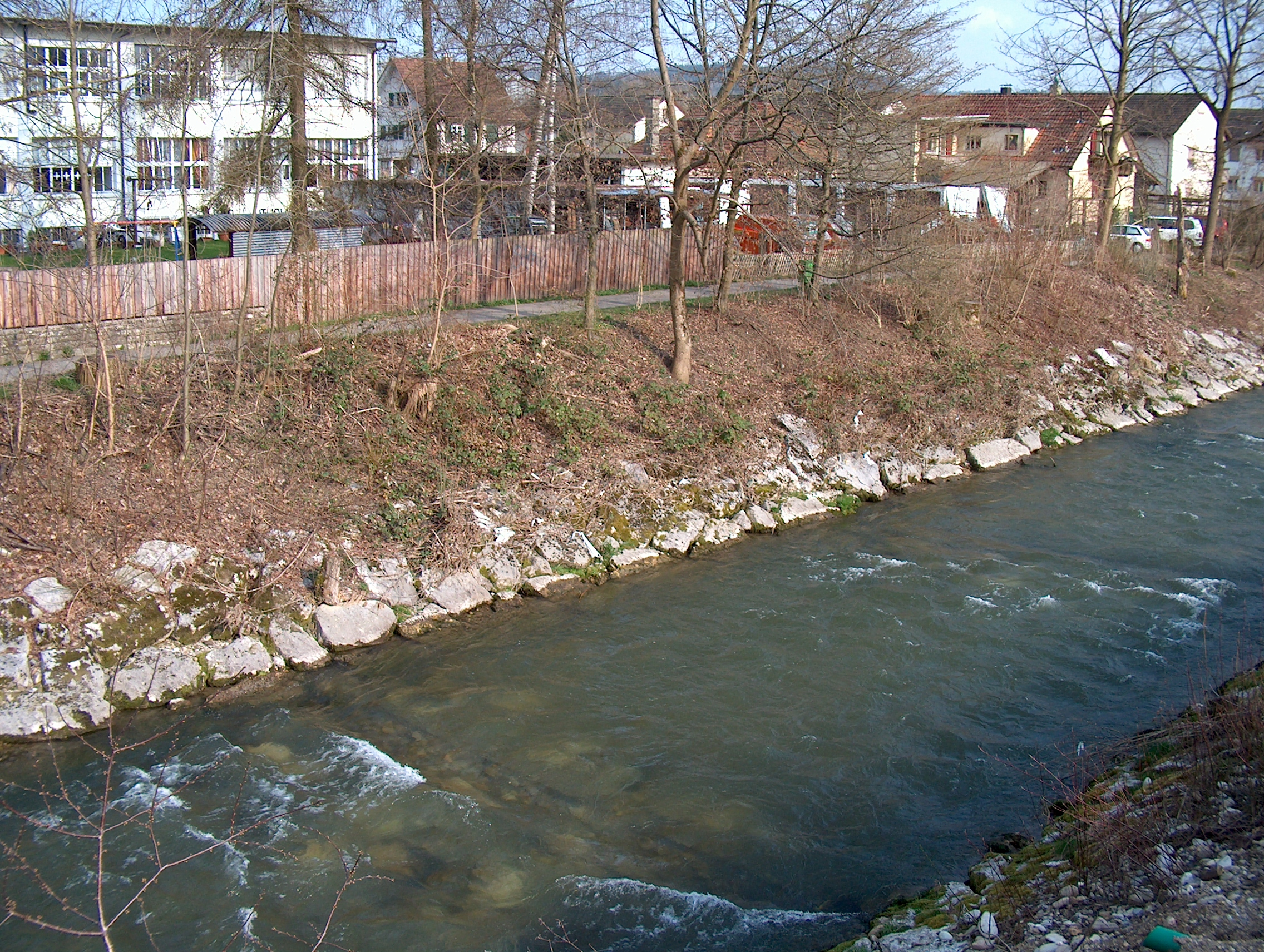 Swiss river Wigger. Photo taken from a bridge between Zofingen and Strengelbach in the canton of Aargau, April 4, 2009.